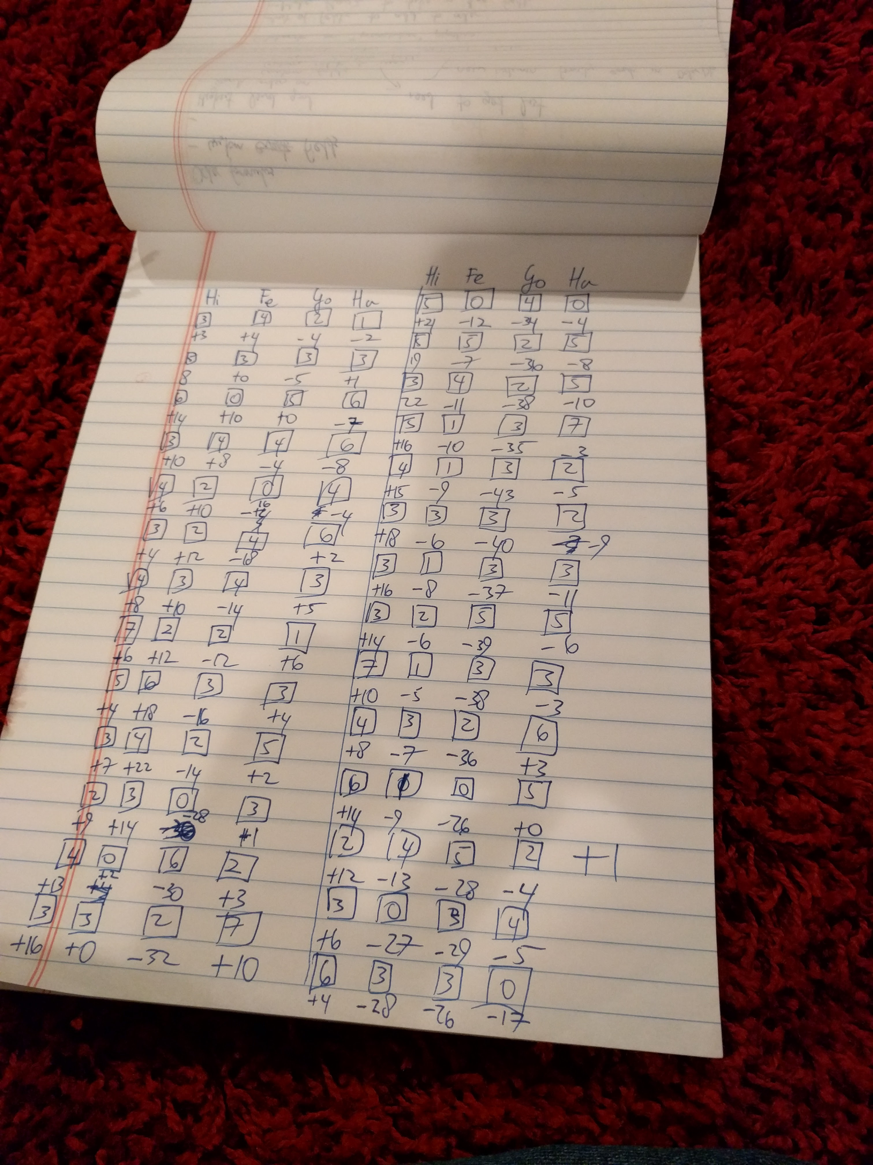 An example scoreboard of a "truf" card game